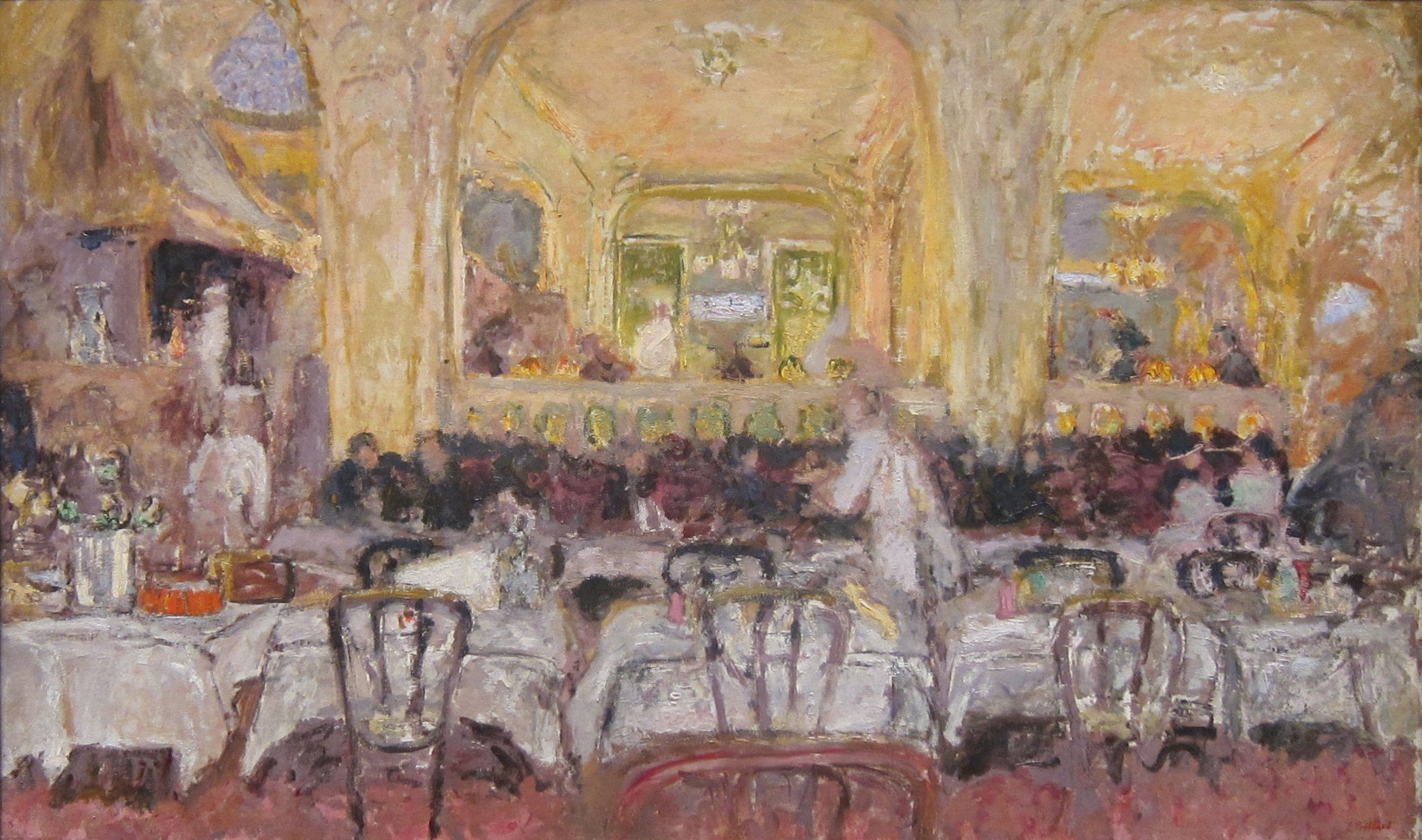 Café Wepler, oil painting by Édouard Vuillard, 1908-10, reworked 1912, Cleveland Museum of Art